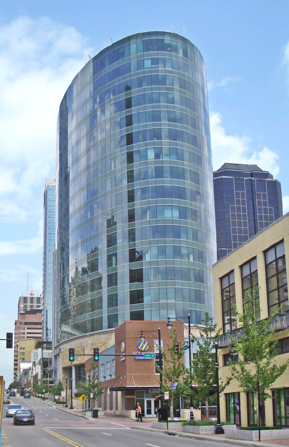 H&R Block World Headquarters, Kansas City, Missouri